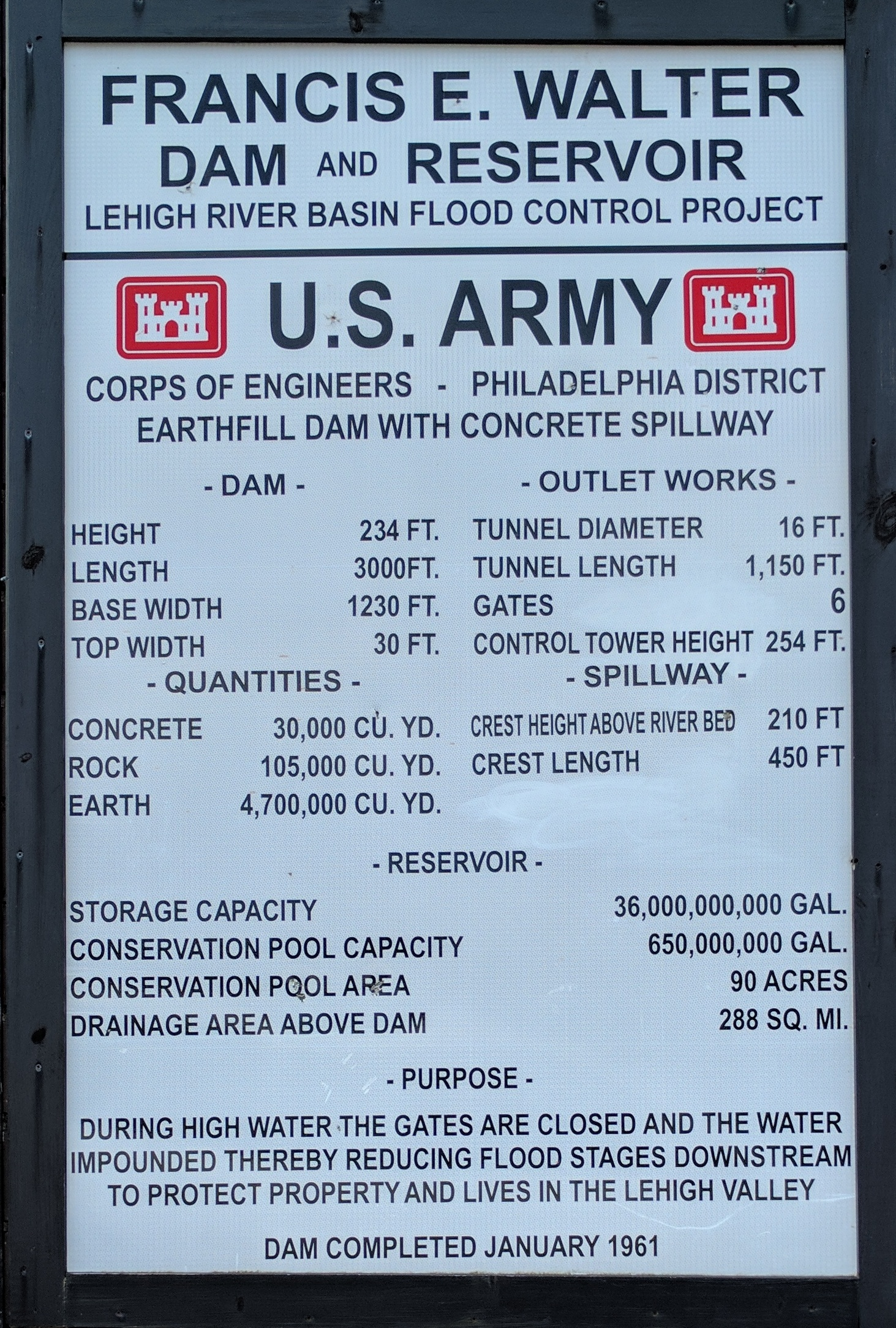 Information sign of Francis E. Walter Dam giving information about its construction and operation